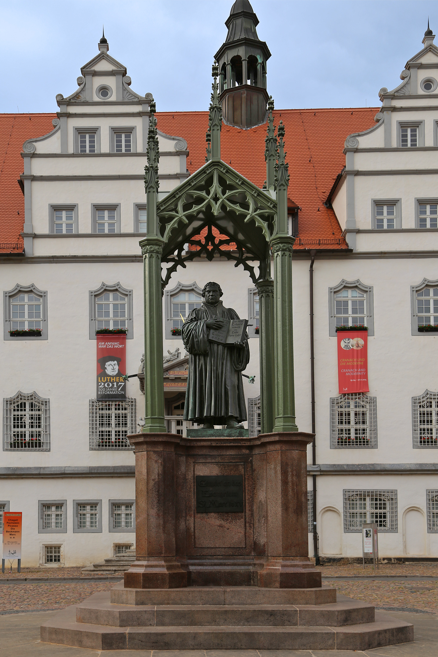 Wittenberg Altes Rathaus: Renaissance town hall and the monument of Martin Luther.